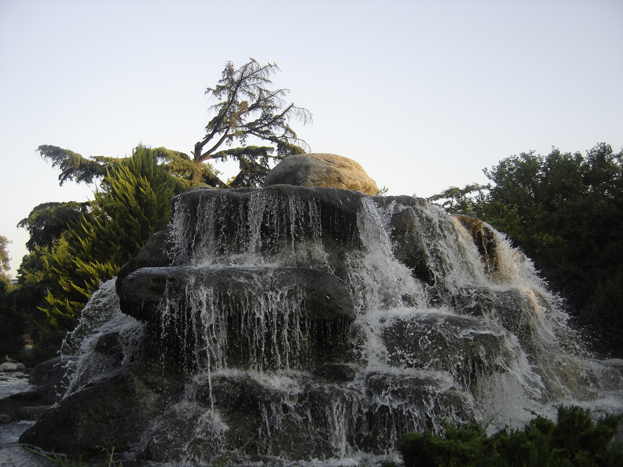 A view from Katerini's Park.